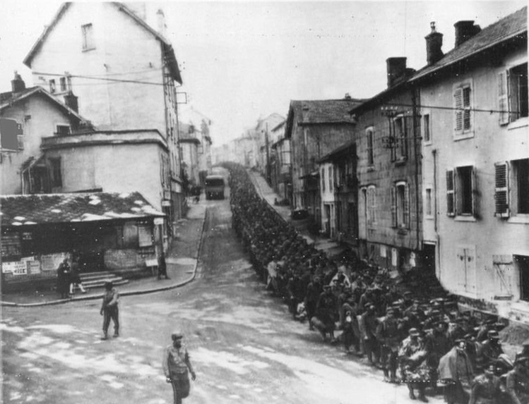 One section o the 5,000 German officers and men captured at Strasbourg, stretching in lines that disappears from wiew, march thru Épinal, France, to rear area.